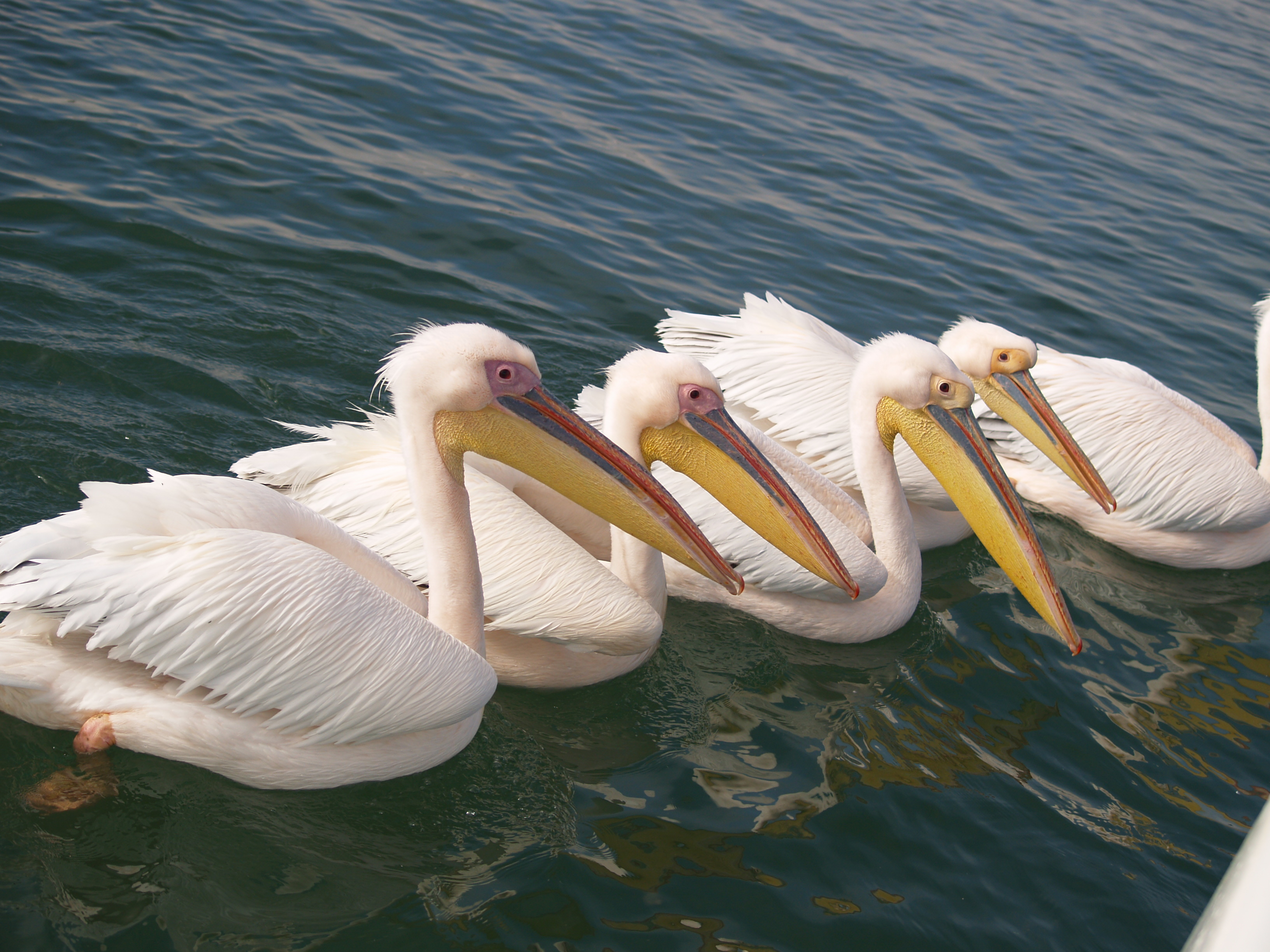 A Great White Pelican (also known as the Eastern White Pelican or White Pelican) swimming in Walvis Bay, Namibia.